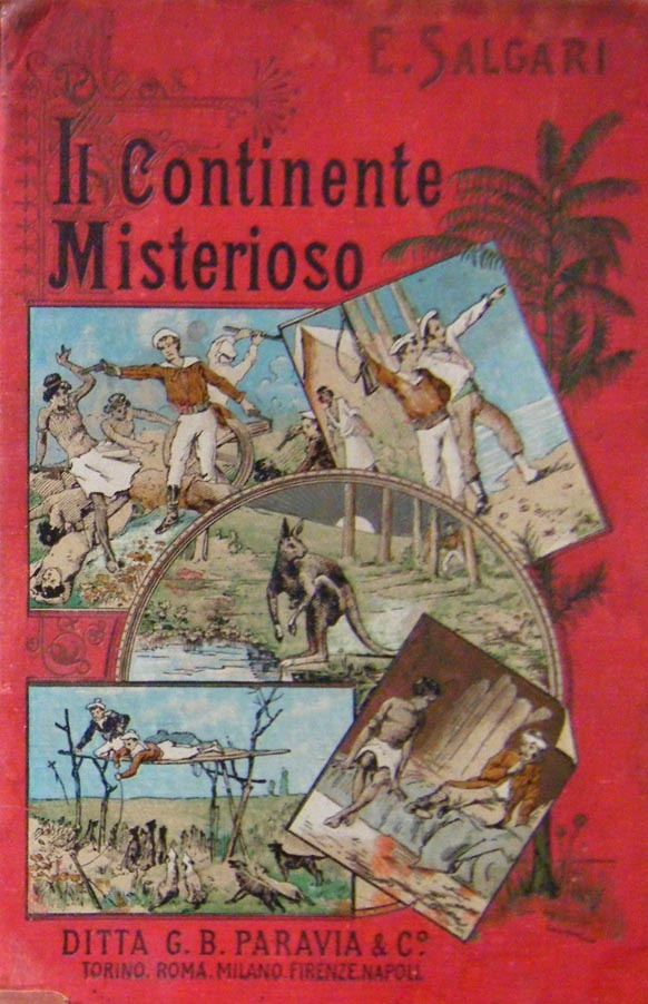 Cover of a Salgari's book2 by Giovanni Carpanetto (1863–1928) Ed. Paravia